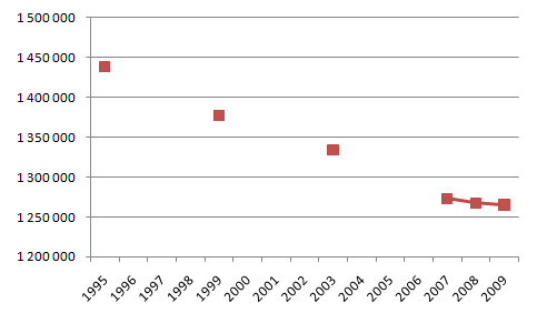 Changes in population of Vitsebsk province